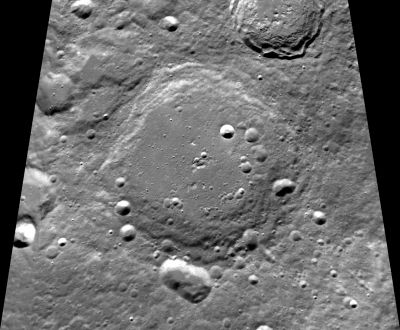 Clementine image of Sommerfeld lunar crater